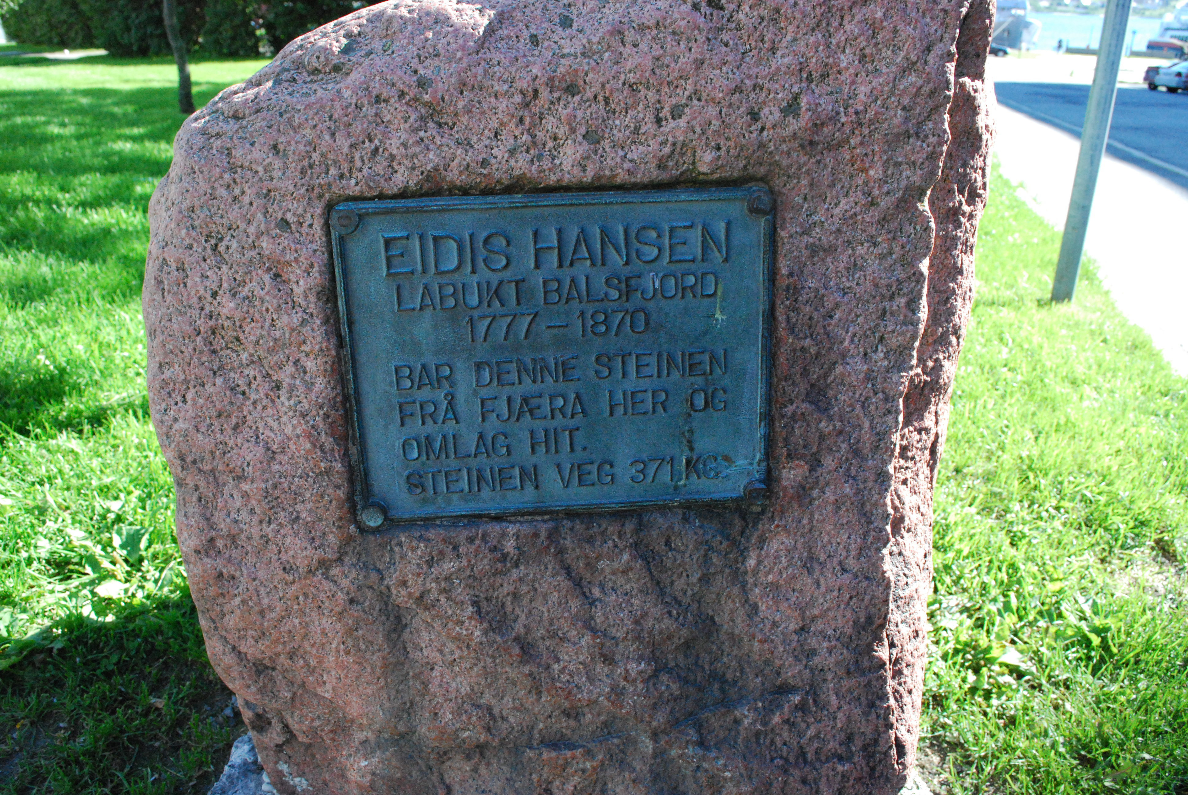 Rock in town, weighing 371kg. Allegedly carried up from the shoreline and dumped on the doorstep of a long-gone bar.